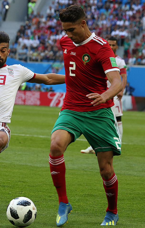 Iran-Morocco match, 2018 FIFA World Cup